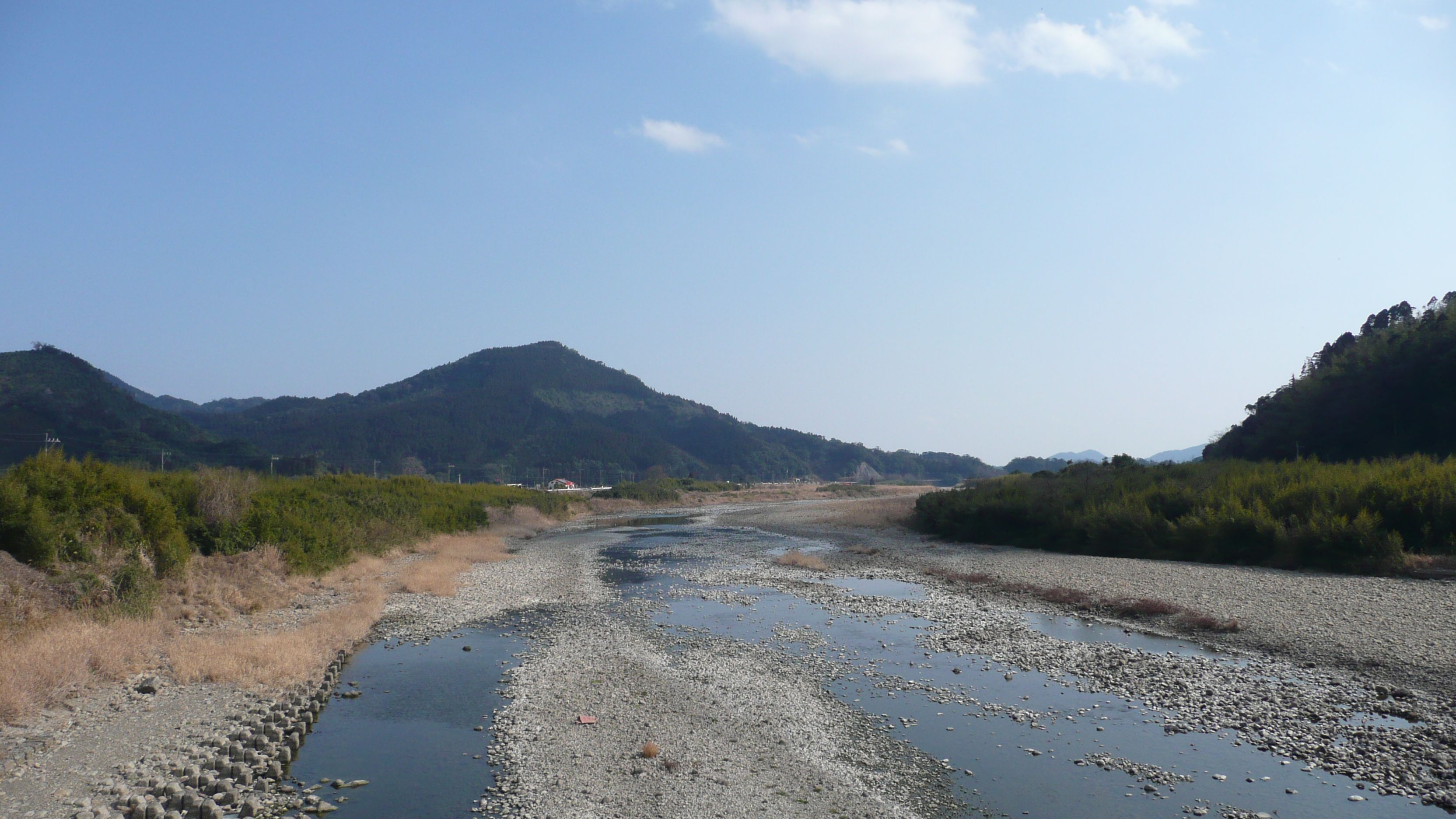 Hiroto River (Kitago, Nichinan City, Miyazaki, Japan)